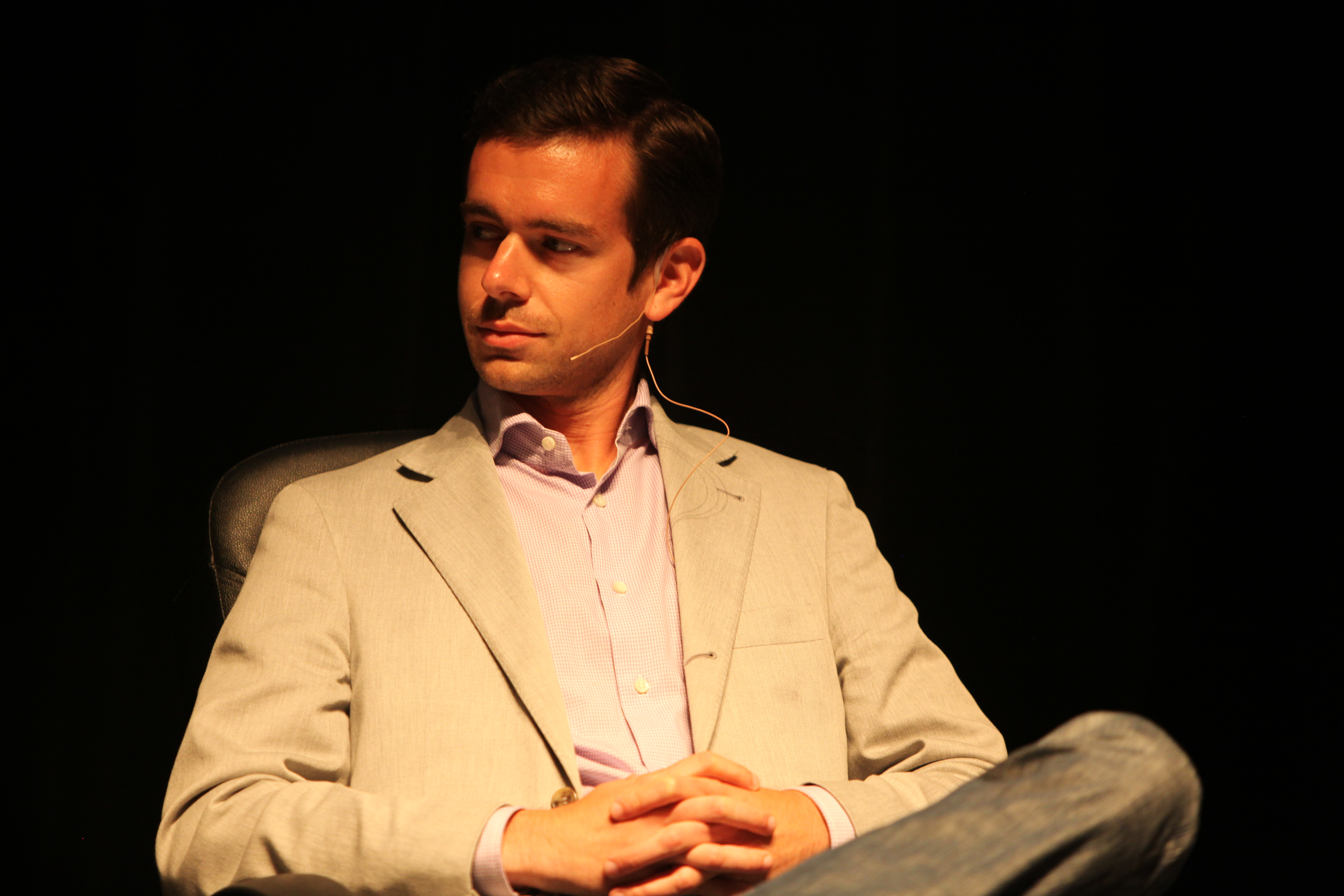 Jack Dorsey at TechCrunch Real-Time Stream Crunchup, in july 2009.